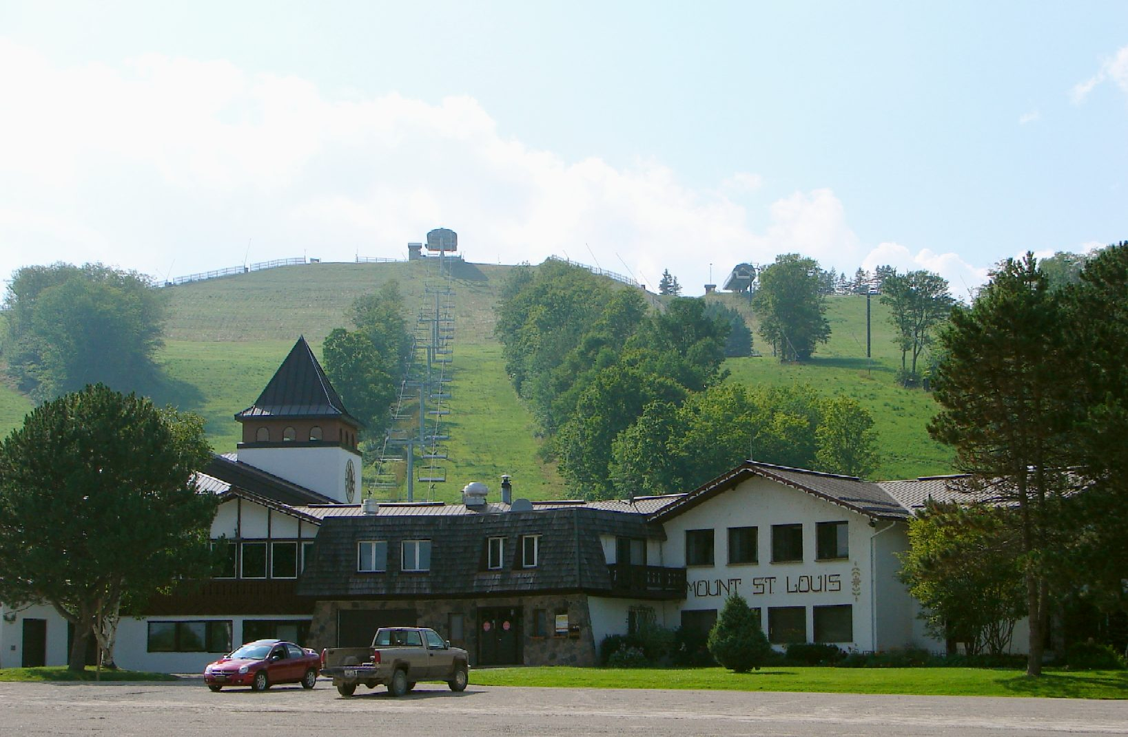 Mount St-Louis Moonstone ski resort, Oro-Medonte Township, Ontario, Canada